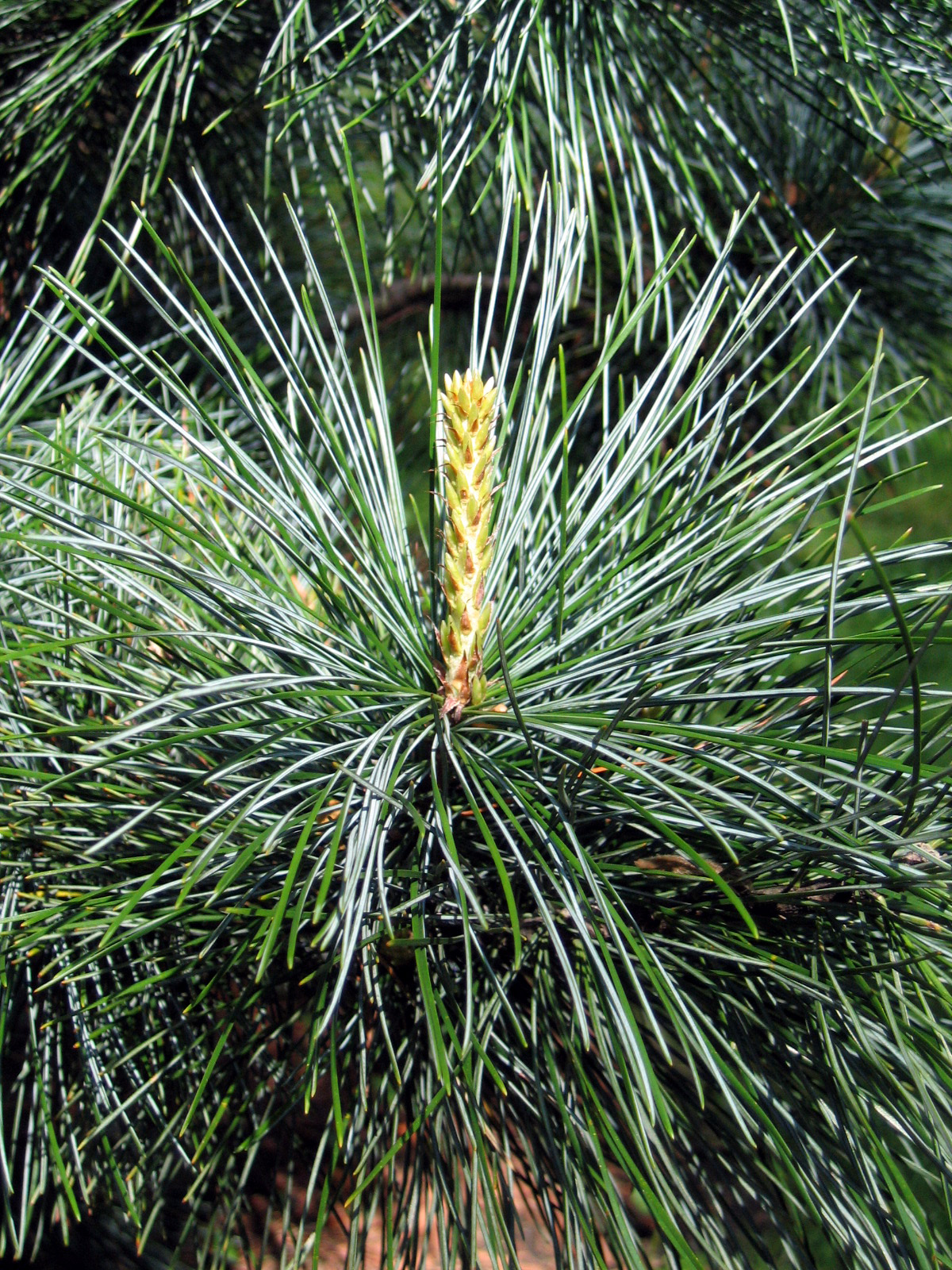 Korean Pine (Pinus koraiensis), cultivated in Wrocław University Botanical Garden, Wrocław, Poland.